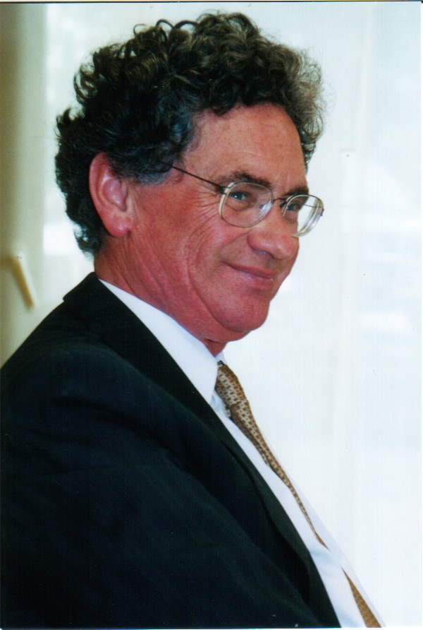 Picture of the leader of the The Christians